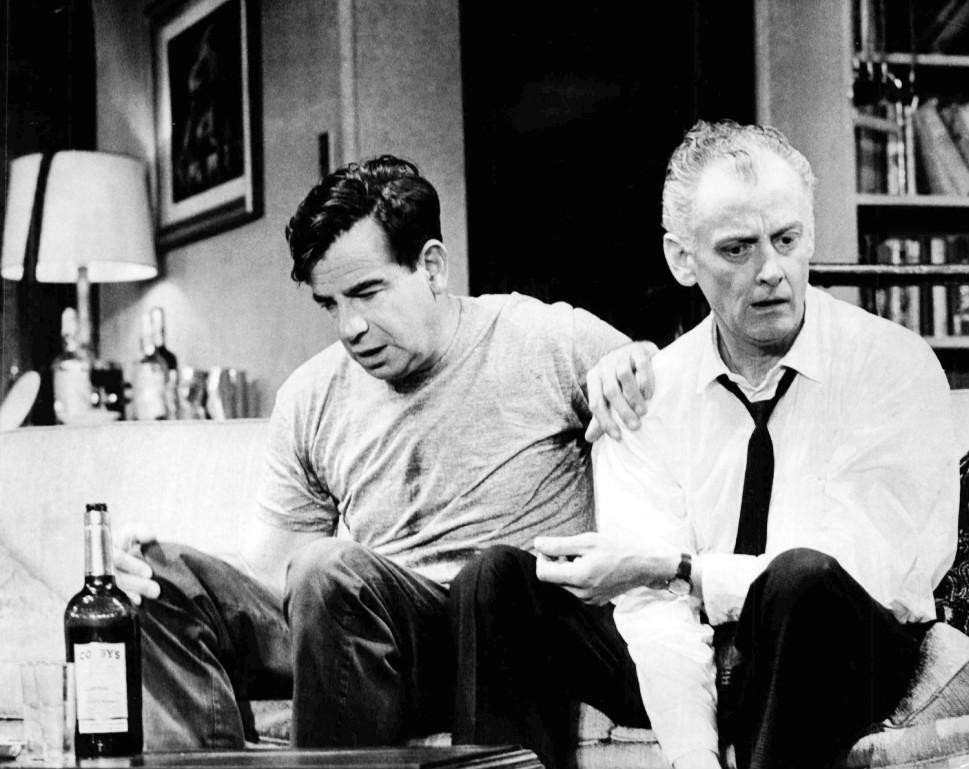 Photo of Walter Matthau as Oscar Madison and Art Carney as Felix Ungar from the original Broadway production of The Odd Couple.